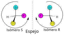 R/S isomers of bromochlorofluoromethane, in Spanish. Adapted from File:RS isomer.png